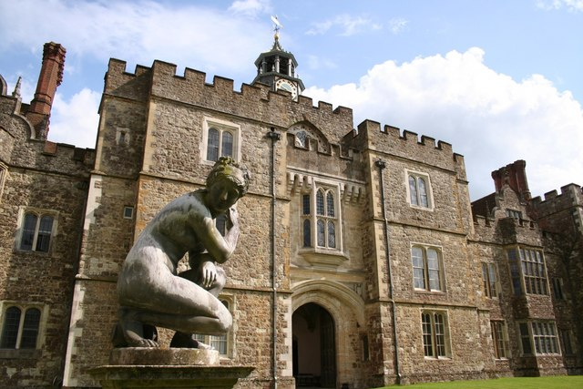 Venus rising from the bath